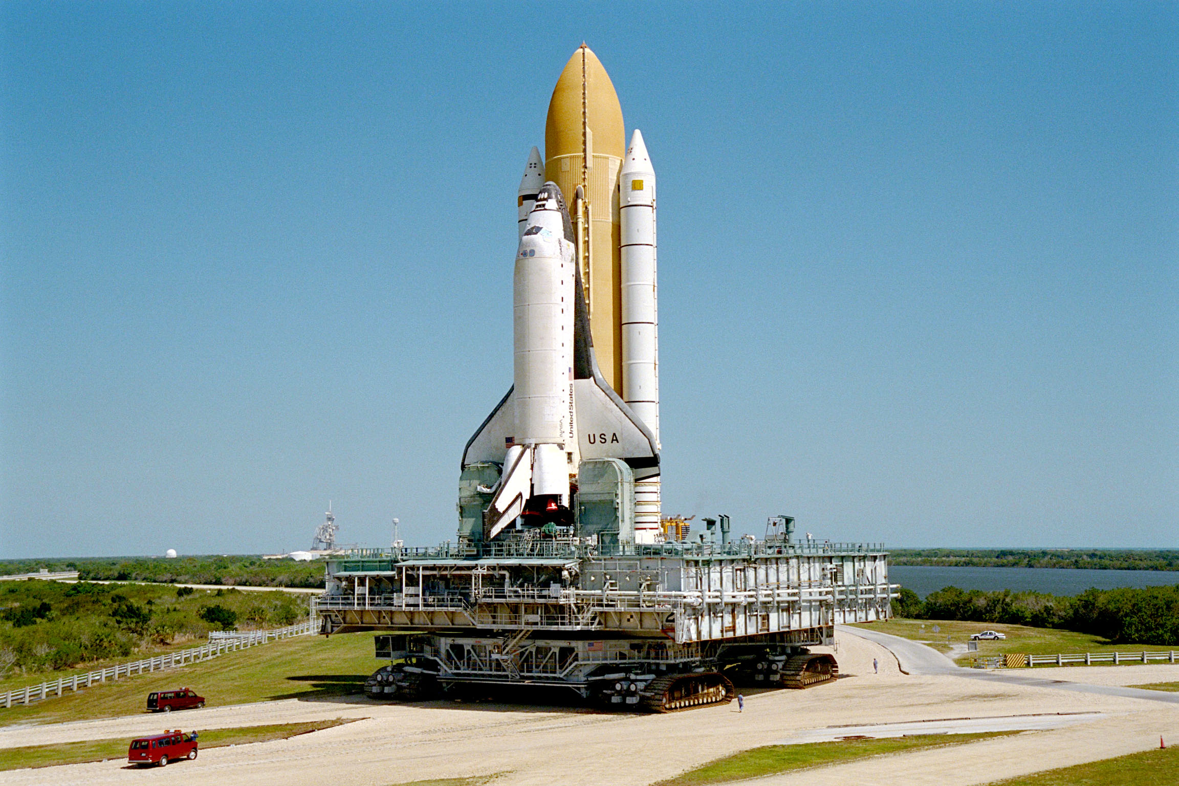 The Space Shuttle Columbia continues its morning rollout from the Vehicle Assembly Building to Launch Pad 39B in preparation for the STS-90 mission. The Neurolab experiments are the primary payload on this nearly 17-day space flight. Investigations during the Neurolab mission will focus on the effects of microgravity on the nervous system. Specifically, experiments will study the adaptation of the vestibular system, the central nervous system, and the pathways that control the ability to sense location in the absence of gravity, as well as the effect of microgravity on a developing nervous system. The crew of STS-90, slated for launch April 16 at 2:19 p.m. EDT, includes Commander Richard Searfoss, Pilot Scott Altman, Mission Specialists Richard Linnehan, Dafydd (Dave) Williams, M.D., and Kathryn (Kay) Hire, and Payload Specialists Jay Buckey, M.D., and James Pawelczyk, Ph.D.